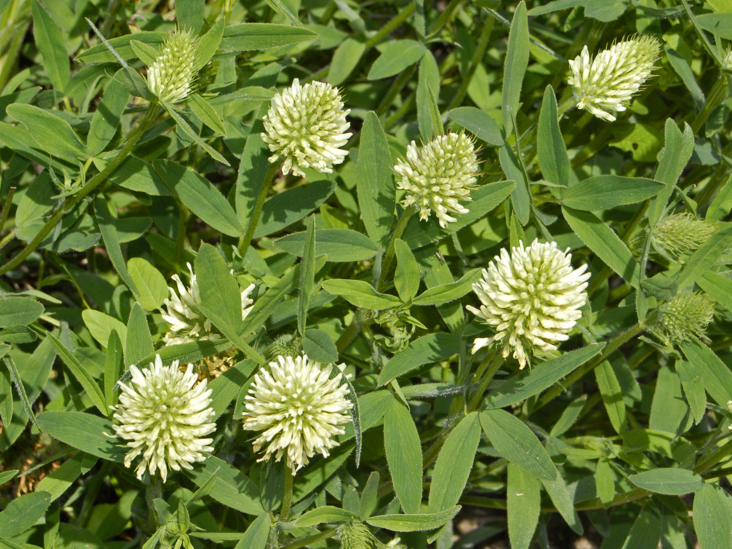 Trifolium pannonicum at the Jardin des Plantes, Paris